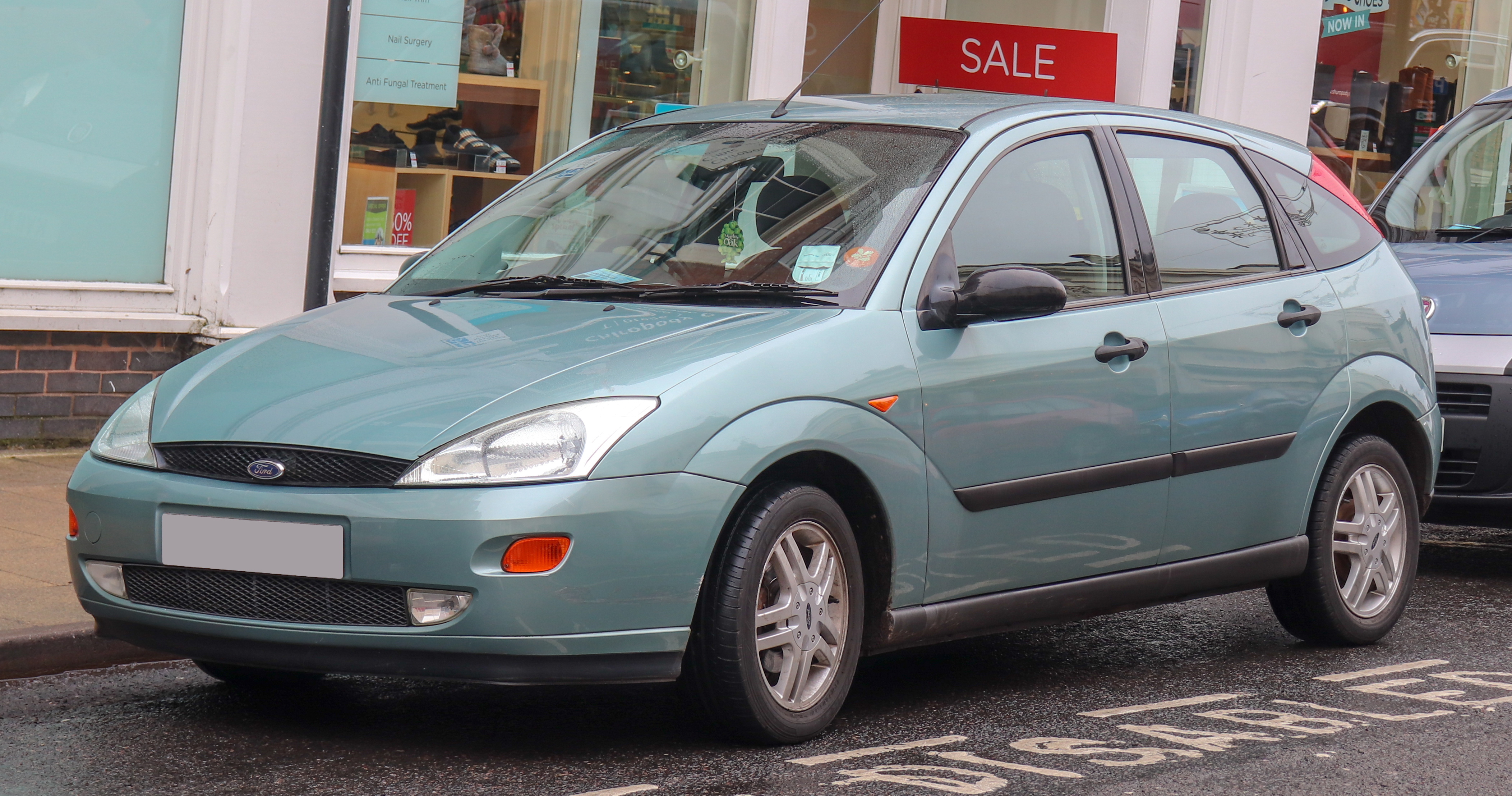 1999 Ford Focus Zetec 1.8 Front Taken in Leamington Spa